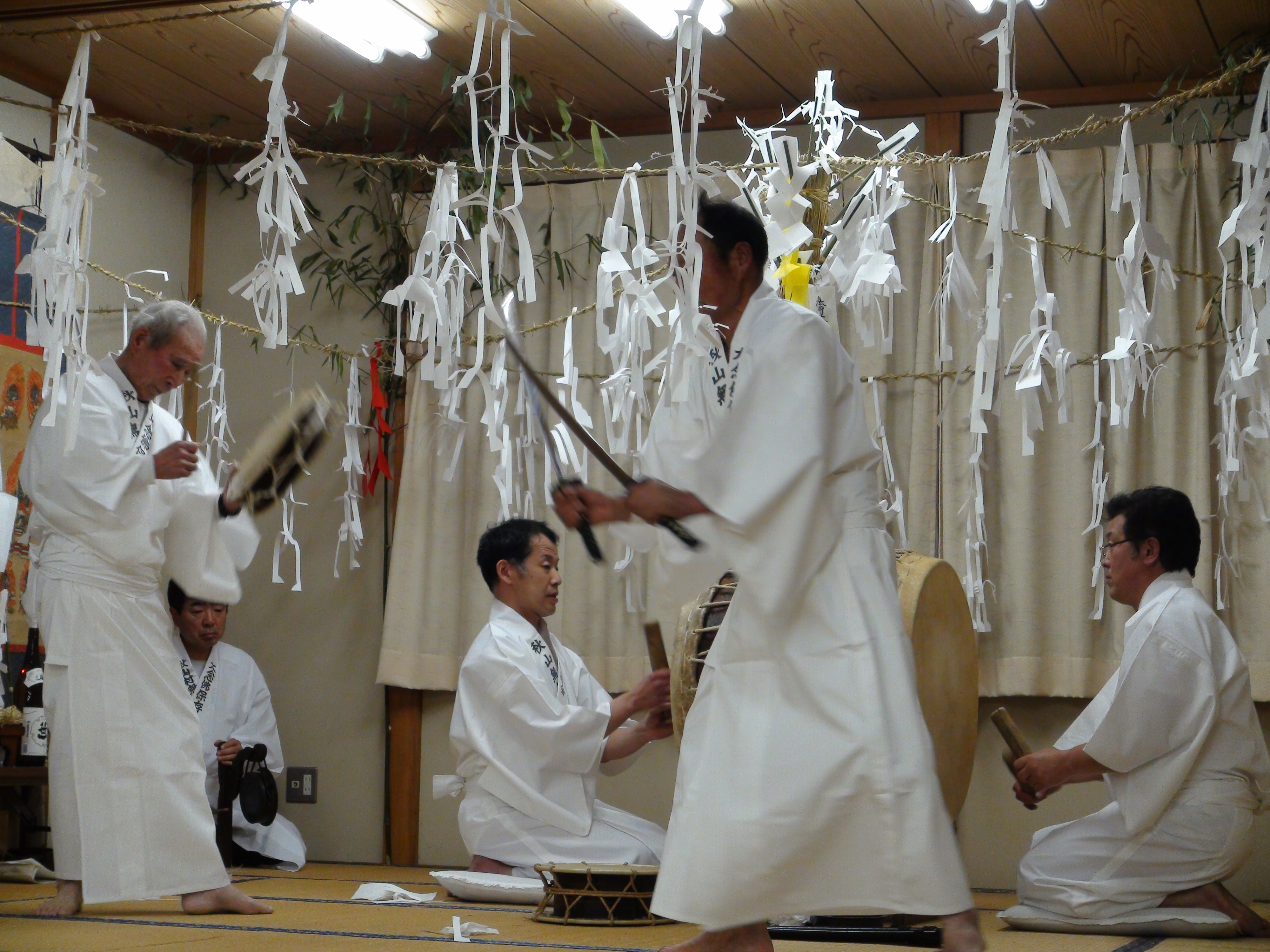 Mushono-Dainembutsu dance of Nihontachi